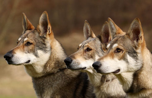 pictures of three saarlooswolfhonds, a 6 year old male dog, a 2 Year old male dog, and a 4 year old bitch